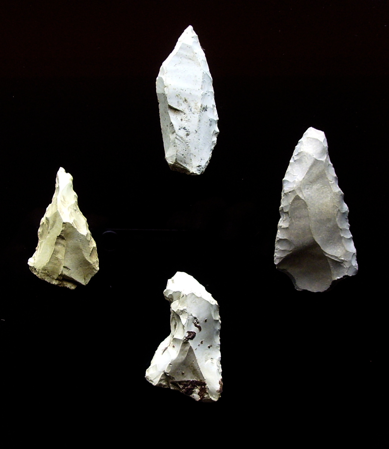 Aven d'Orgnac, musée de Préhistoire, F-07150 ORGNAC-L'AVEN: stone tools from Orgnac 3 archeological site, Orgnac-l'Aven (Département Ardèche), France